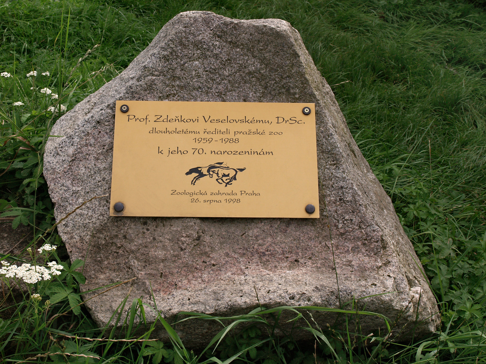 Memorial stone for Zdeněk Veselovský, director of Prague Zoo